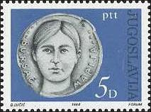 Marija Bursać